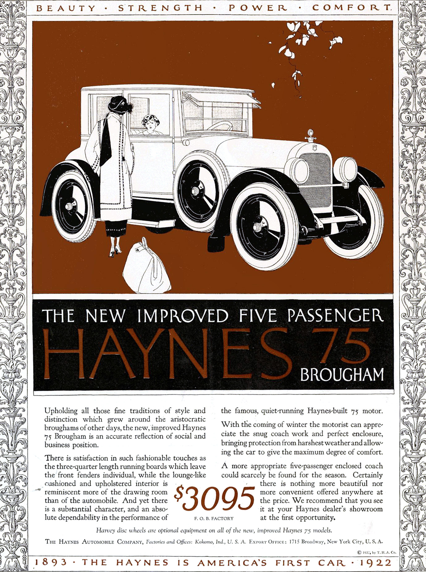 A full page on the back cover of the October 28, 1922 Country Gentleman. I rate the Haynes art and copy as some of the best ever. The optional solid wheels were popular through the 1920's as I recall, I notice that bumpers were not yet standard.